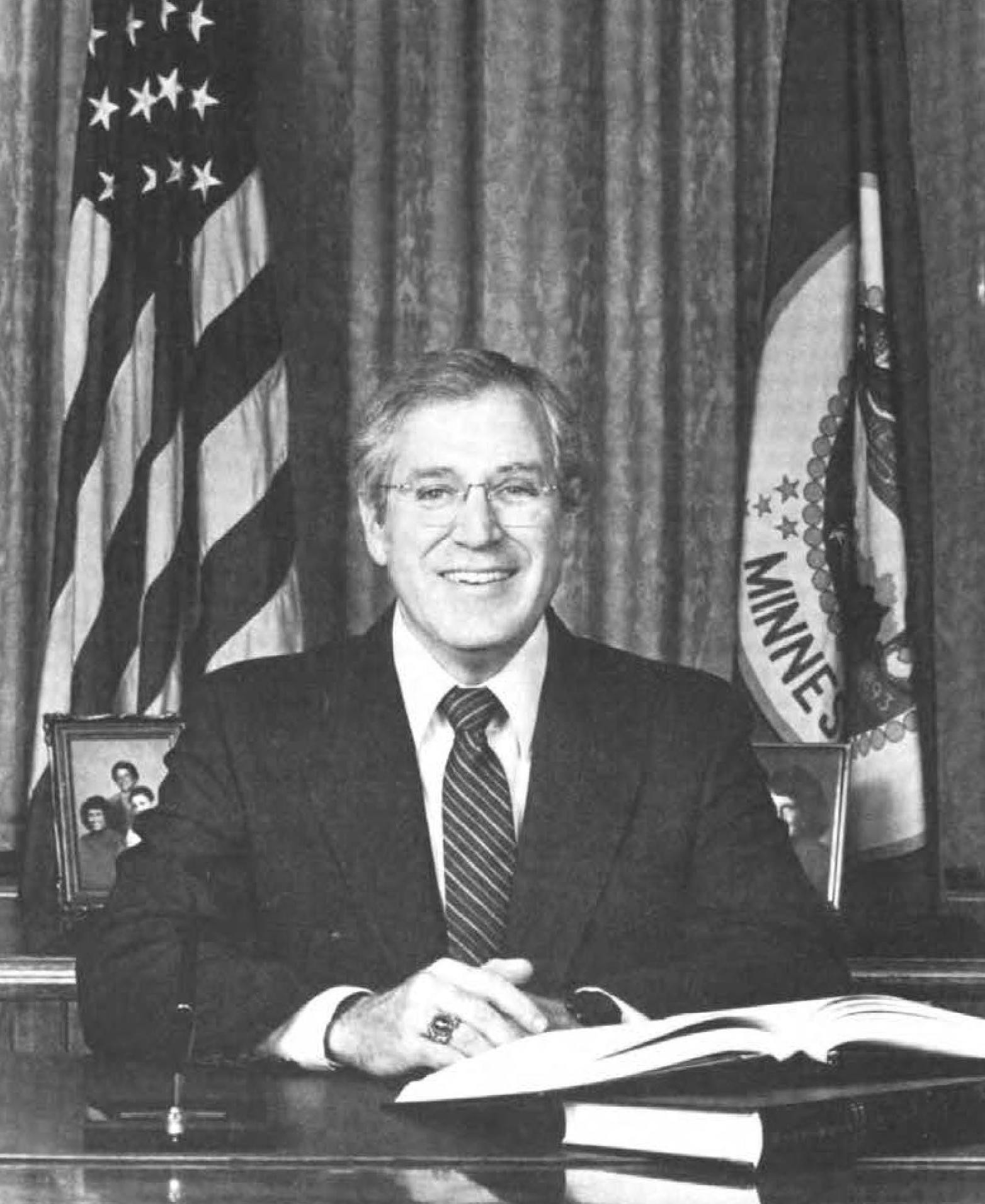 Creative Commons Zero (CCO) This work has been dedicated by the rights holder to the public domain. It is not protected by copyright and may be reproduced and distributed freely without permission. The author of this work is the State of Minnesota. It publishes a biannual legislative manual with details of elected officials as well as other information about the state.